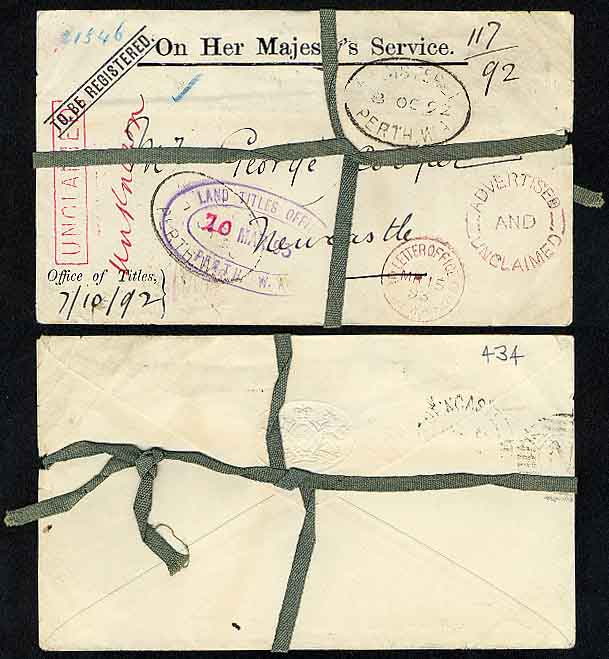 An 1892 unopened Western Australia OHMS registered mail envelope with green linen tape indicating registration.